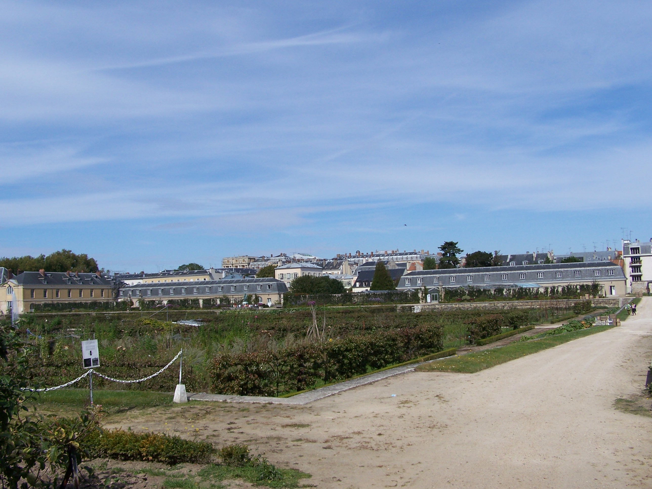 The Potager du Roi in Versailles (Yvelines, France)